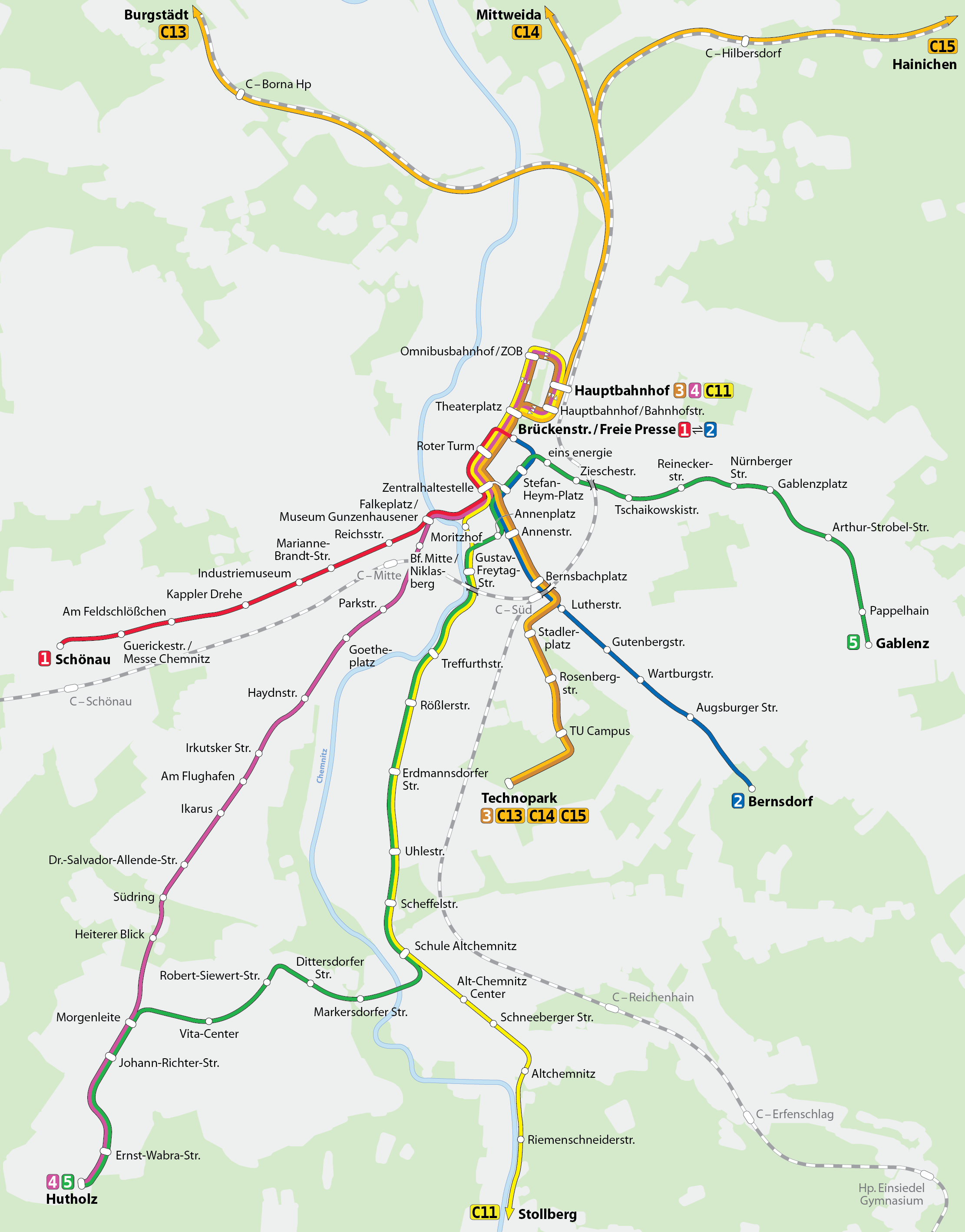 Map: Chemnitz tram network as of 10 December 2017